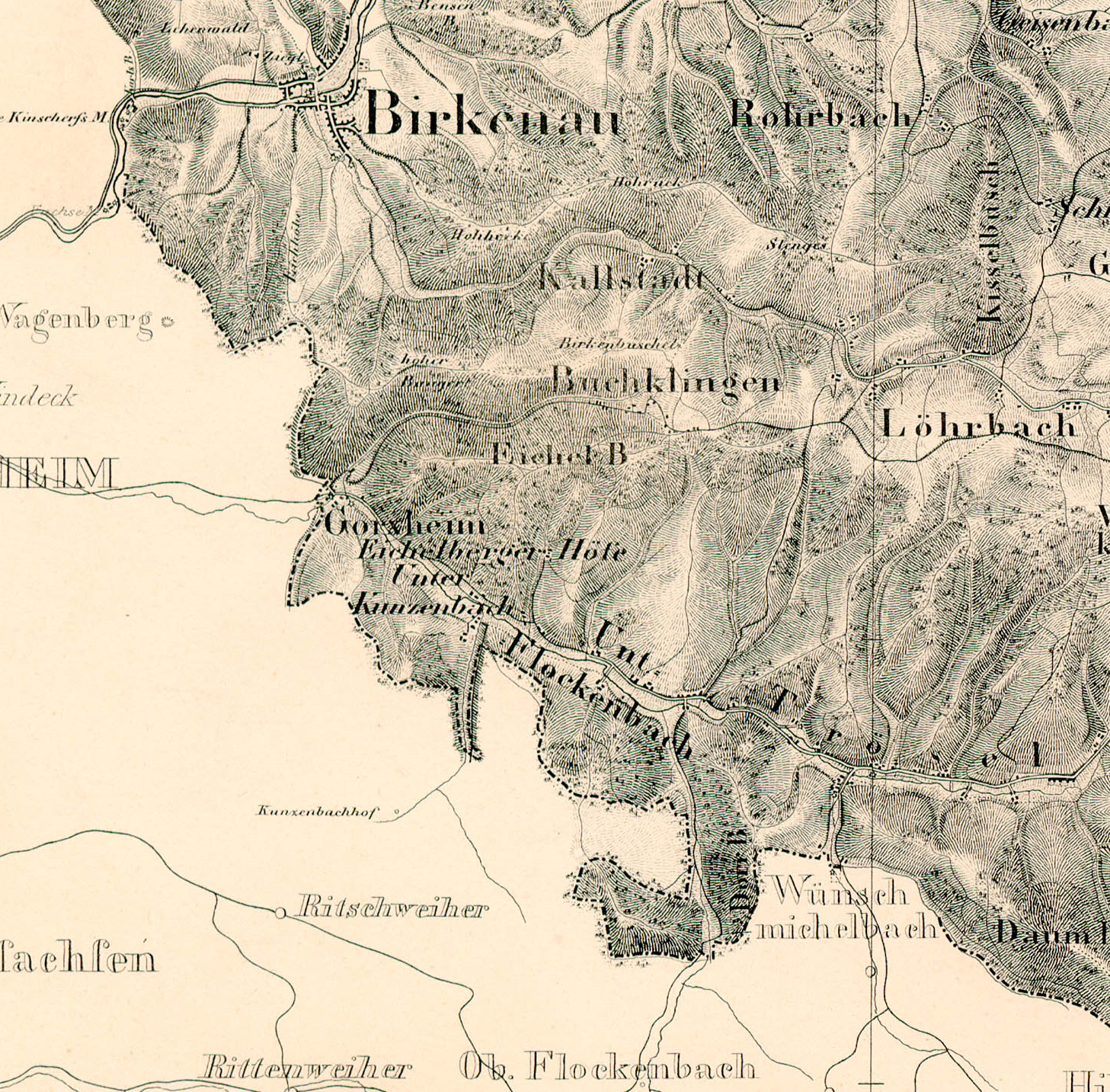 map Großherzogtums Hessen von 1832-1850